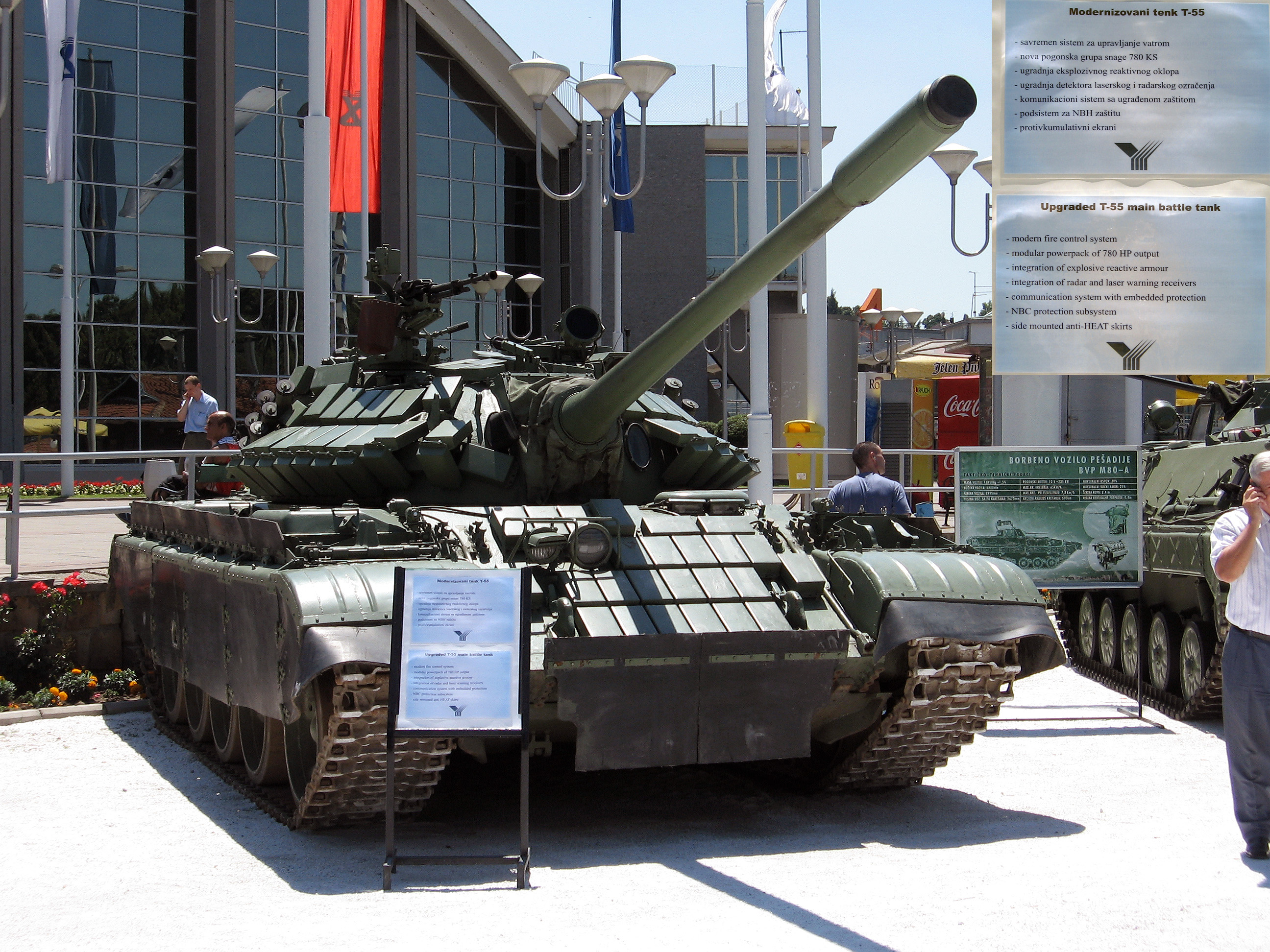 Serbian T-55H on display during the Partner 2007 exhibition.